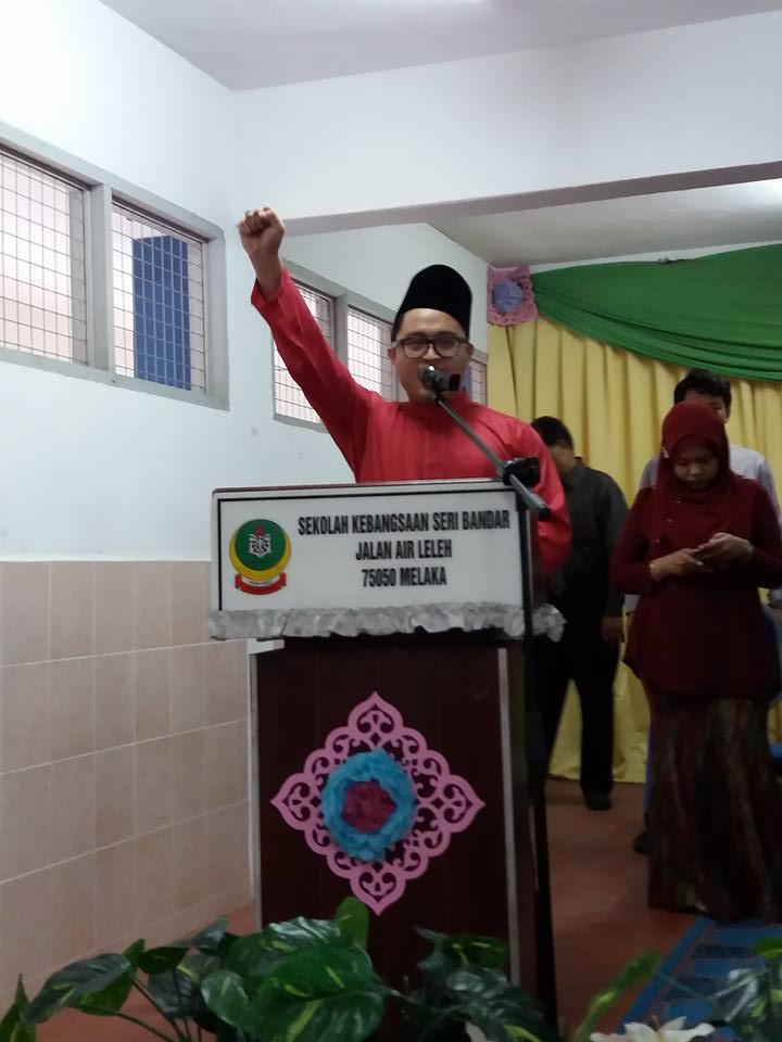 AKTIVITI MERDEKA